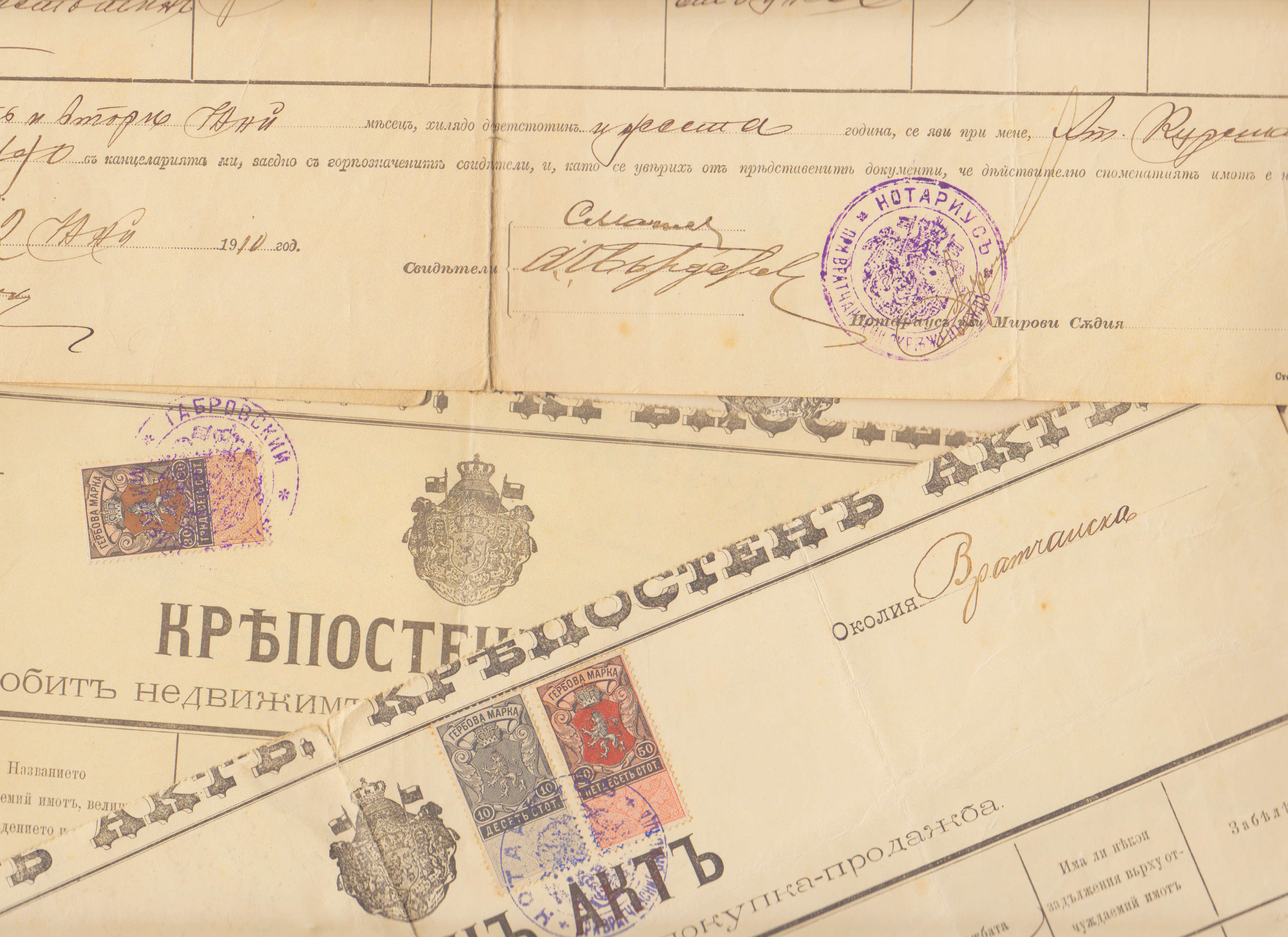 Крепостен акт